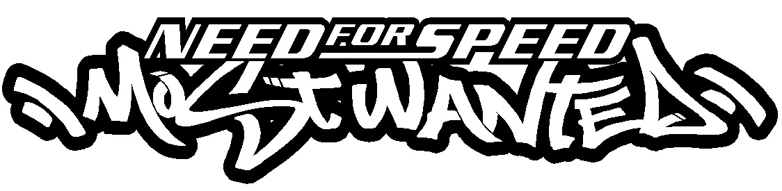 internet